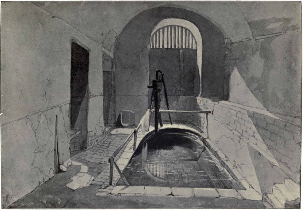 Drawing of Roman Bath in the Strand by John Wykeham Archer, 1841. Featured in 'Mediæval London' by William Benham and Charles Welch, published 1901.